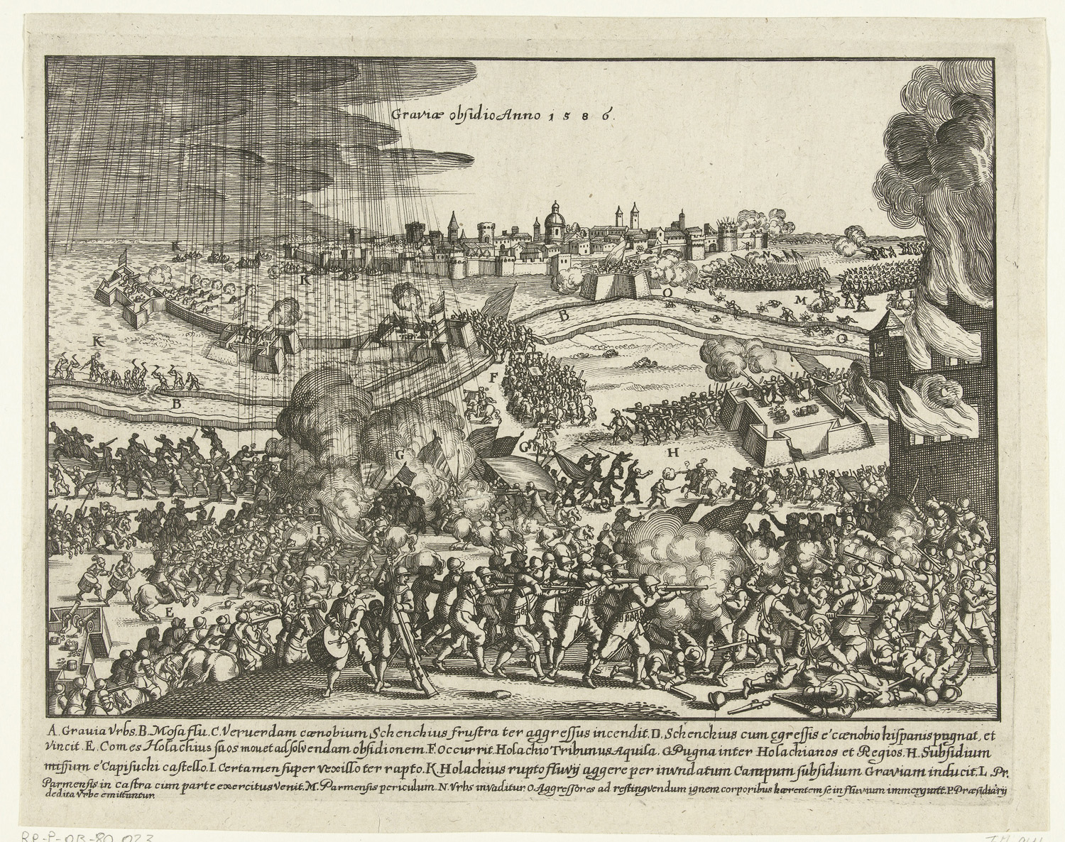 Diege of Grave by Parma, 1586